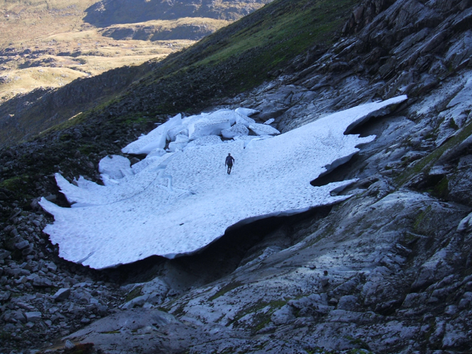 Aonach Mòr protalus rampart snow-patch